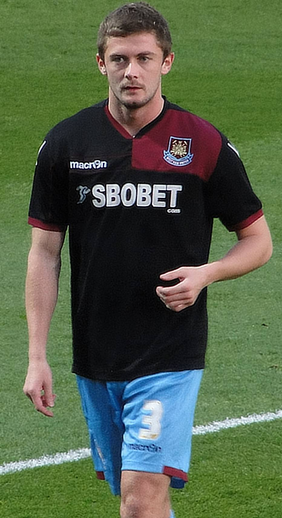 West Ham United football George McCartney warming-up for West Ham before their game at London Road against Peterborough United, March 2012